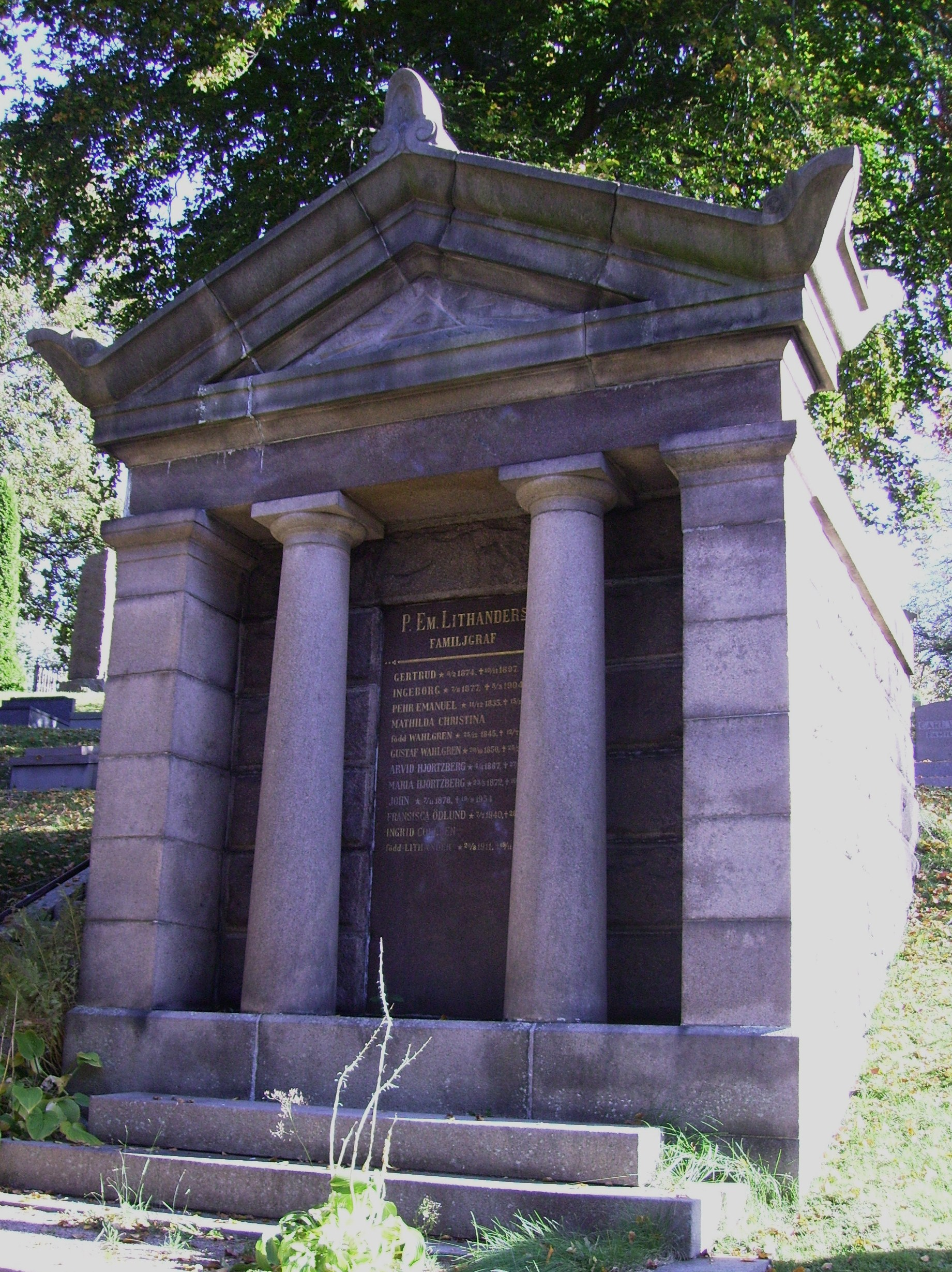 Picture of Per Emanuel Lithander's grave at Östra kyrkogården in Göteborg